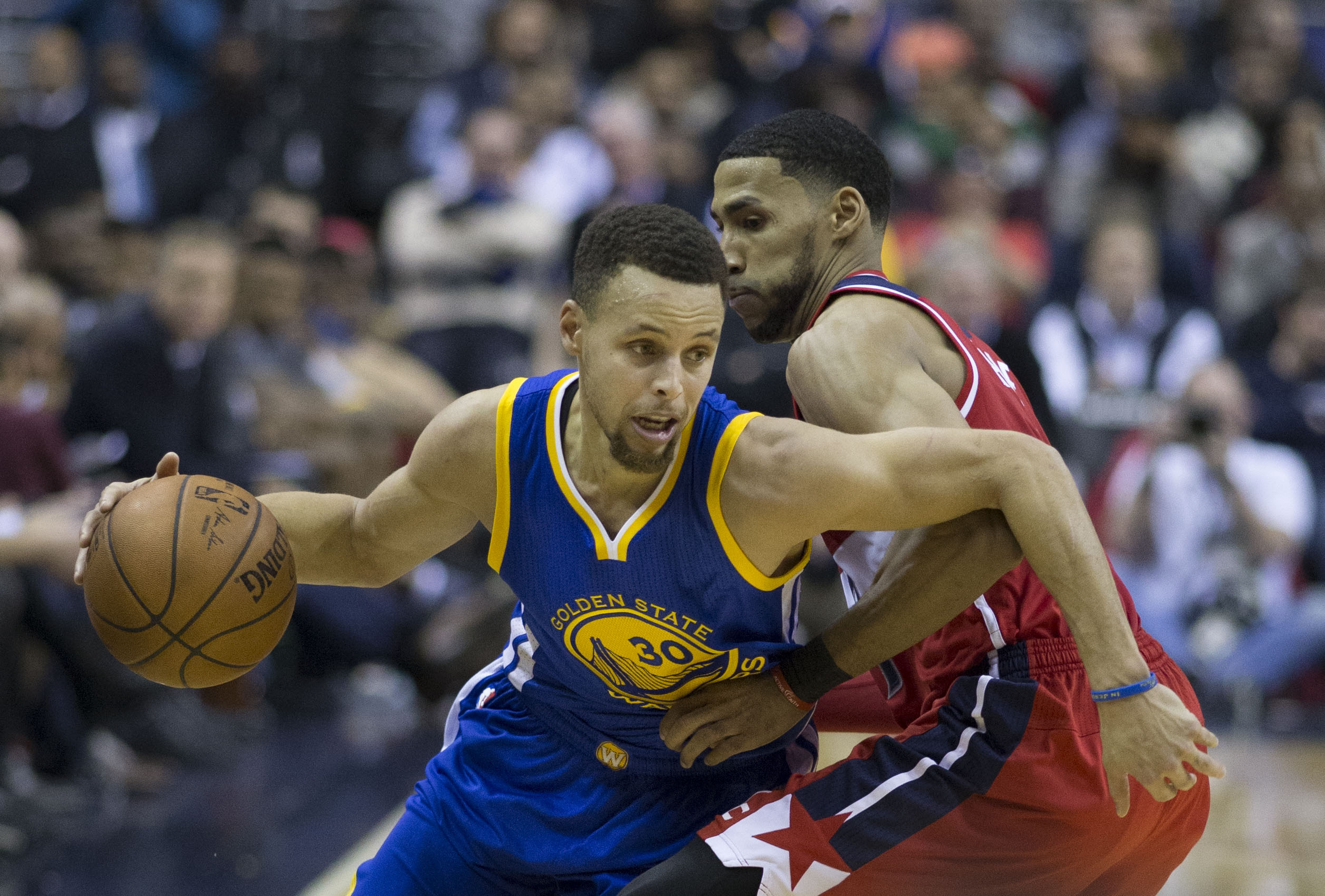 Stephen Curry of the Golden State Warriors against Garrett Temple of the Washington Wizards